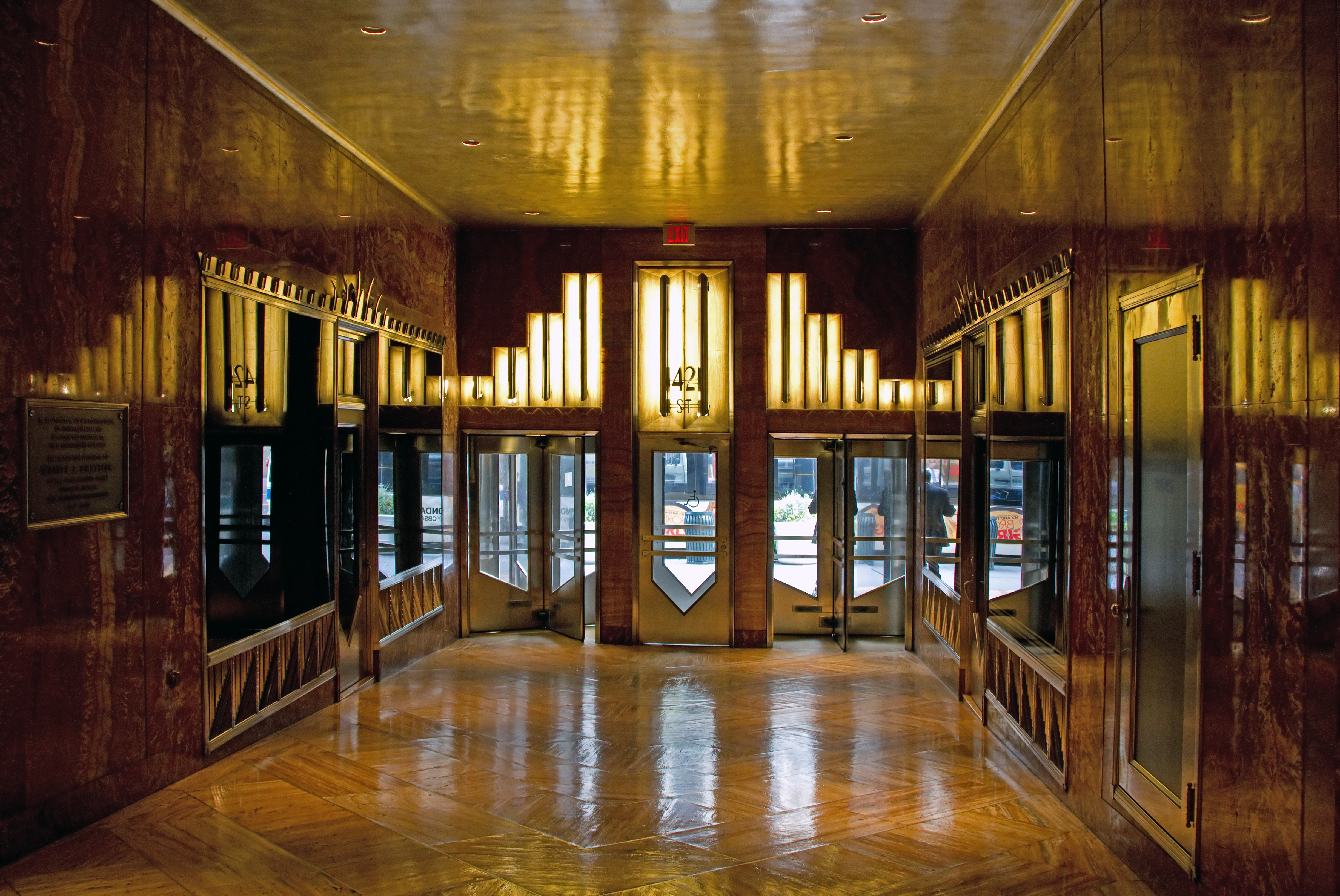 42nd St exit Chrysler Building